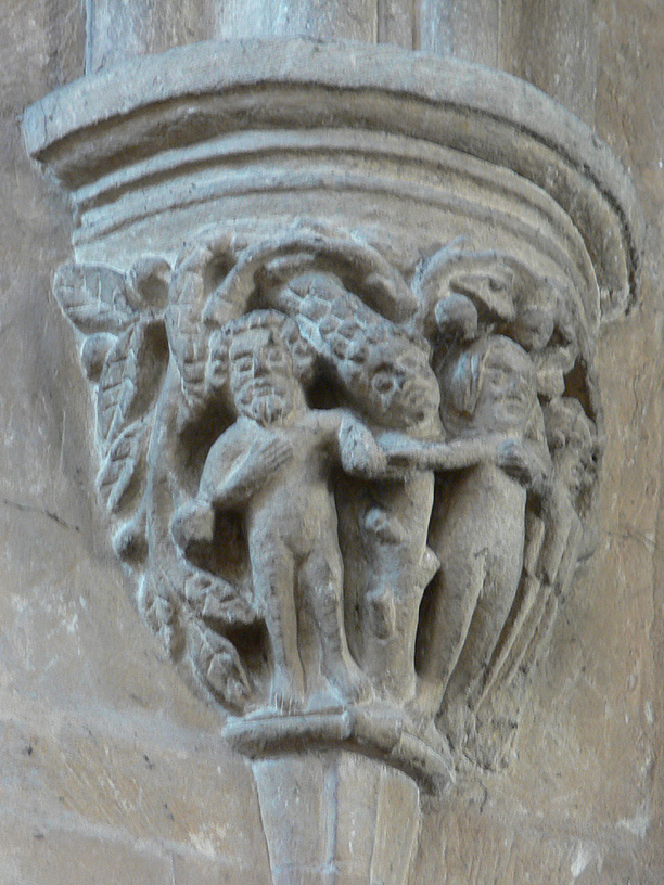 Mediaeval (early 14th century) stone carving of the Expulsion from the Garden of Eden, showing the Serpent (with human face), Adam and Eve and (?) an angel. All Saints parish church, Oakham, Rutland.